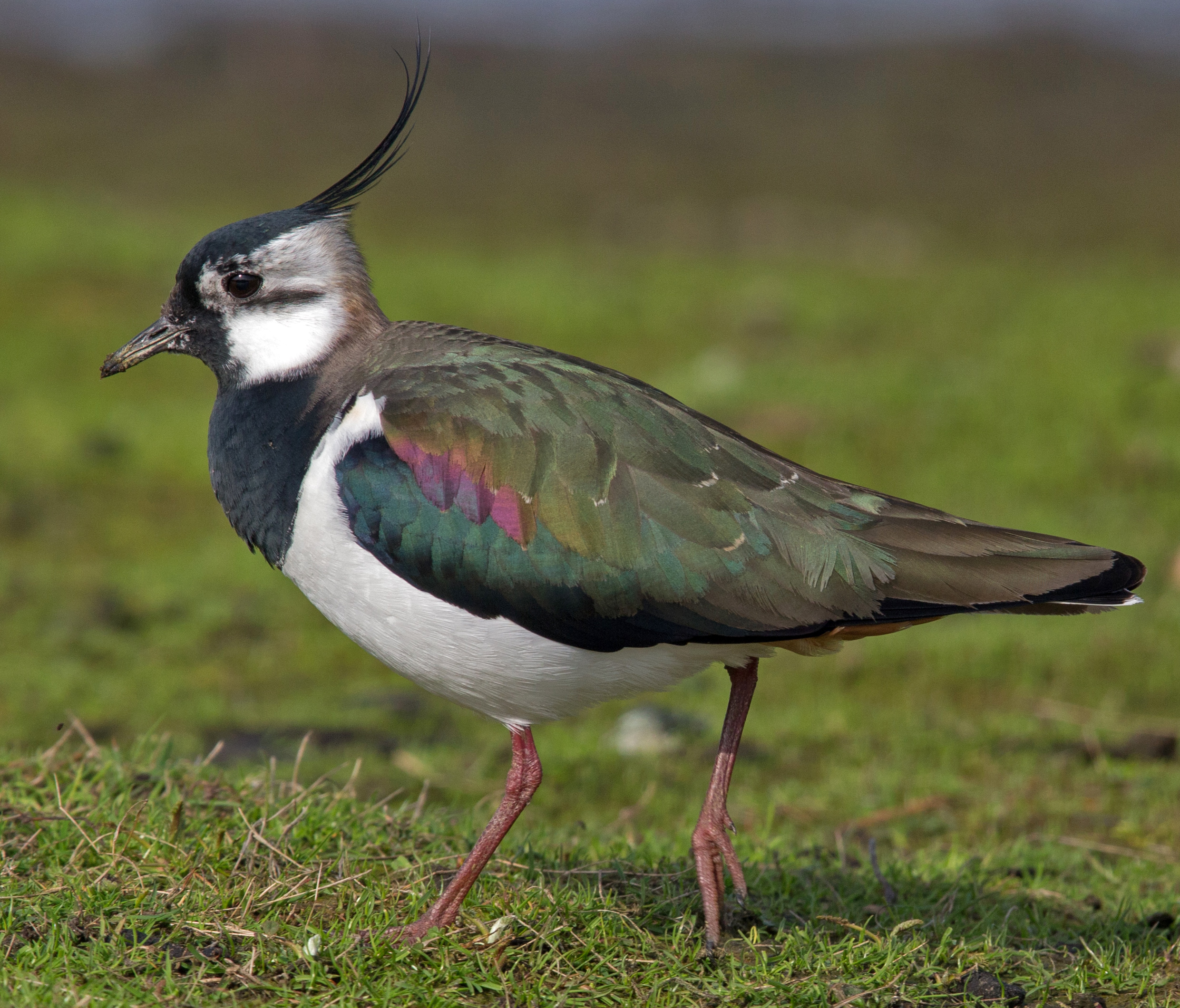 Northern Lapwing